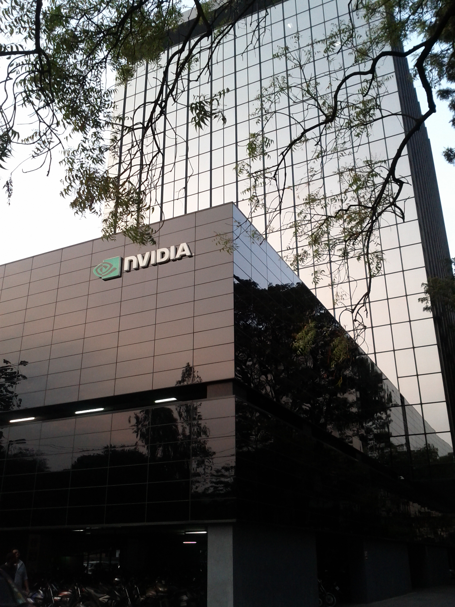 Nvidia office in Pune